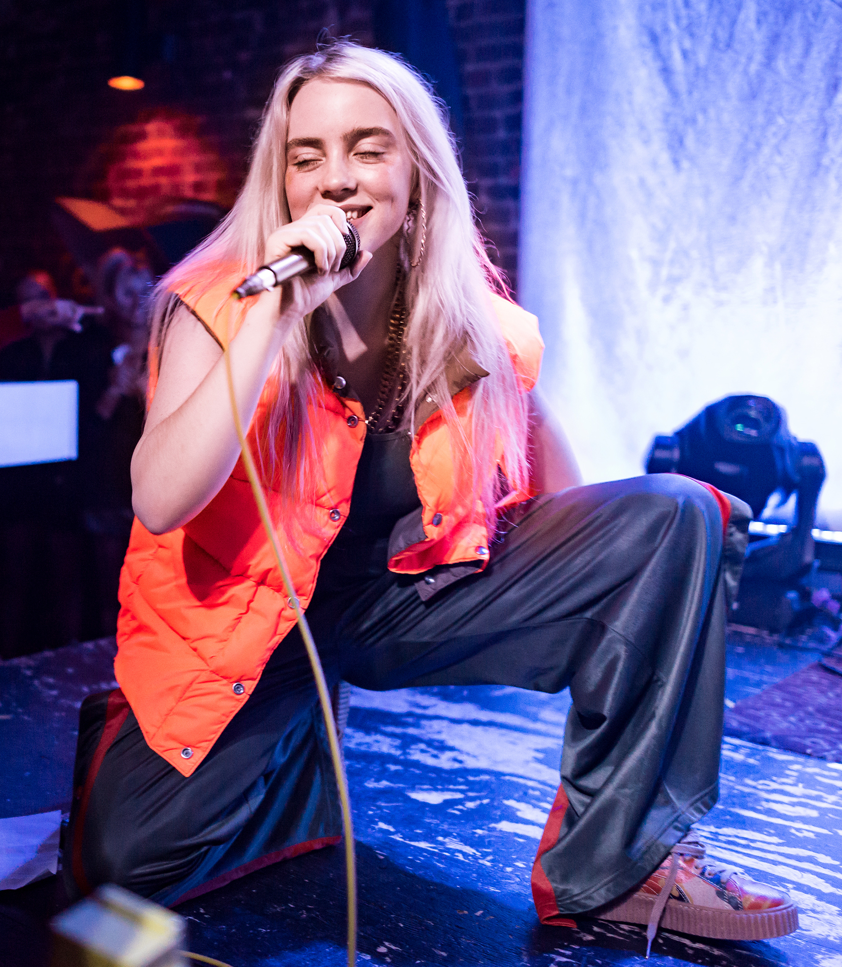 Billie Eilish performing live at The Hi Hat in Highland Park, Los Angeles, California, on Thursday, August 10, 2017.